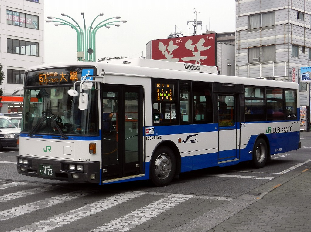 JR bus Kanto (Koga depot) Nissan Diesel Space Runner (KL-UA452KAN,from Tokyu bus)